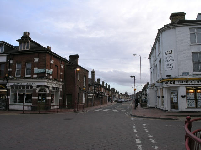 Snodland Town Centre. Snodland town centre has changed little since the 1920s, save for modern railings road signs and some incredibly unsightly CCTV poles. Even the bakery still sports the Hovis logo, which could be observed on a period post card.